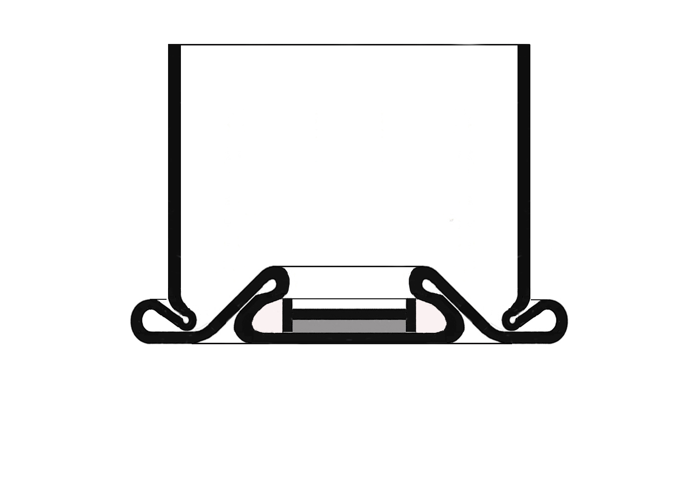 Martin Primer